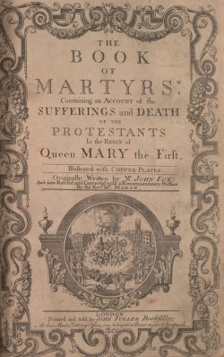 Frontispiece to the 1761 edition of Foxe's Book of Martyrs